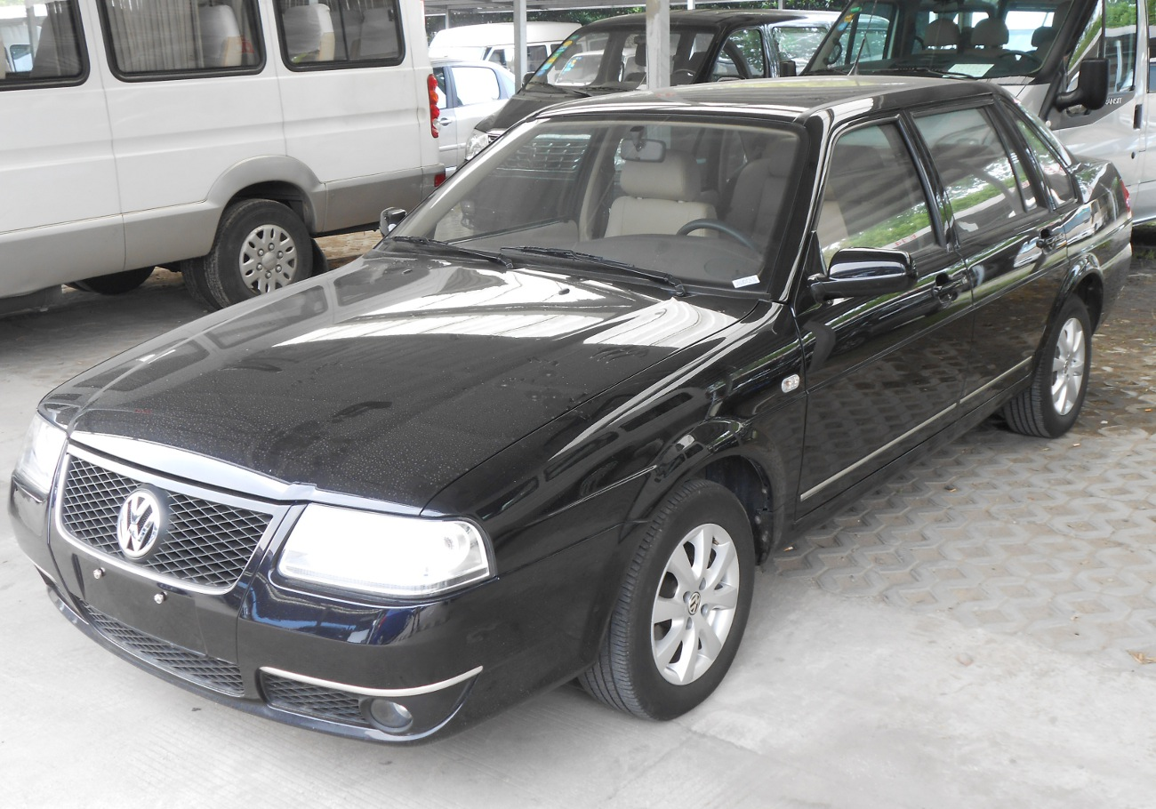 Volkswagen Santana Vista photographed in a second-hand car market in Shanghai, China.